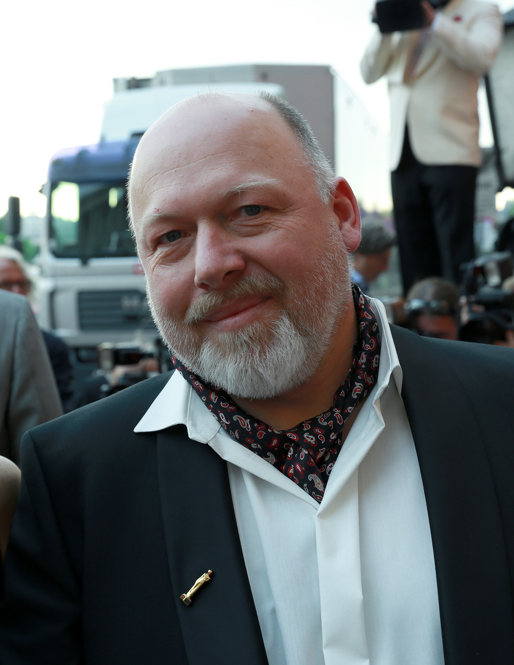 Rainer Kaufmann at the Romy film awards 2014 (Hofburg Imperial Palace in Vienna)